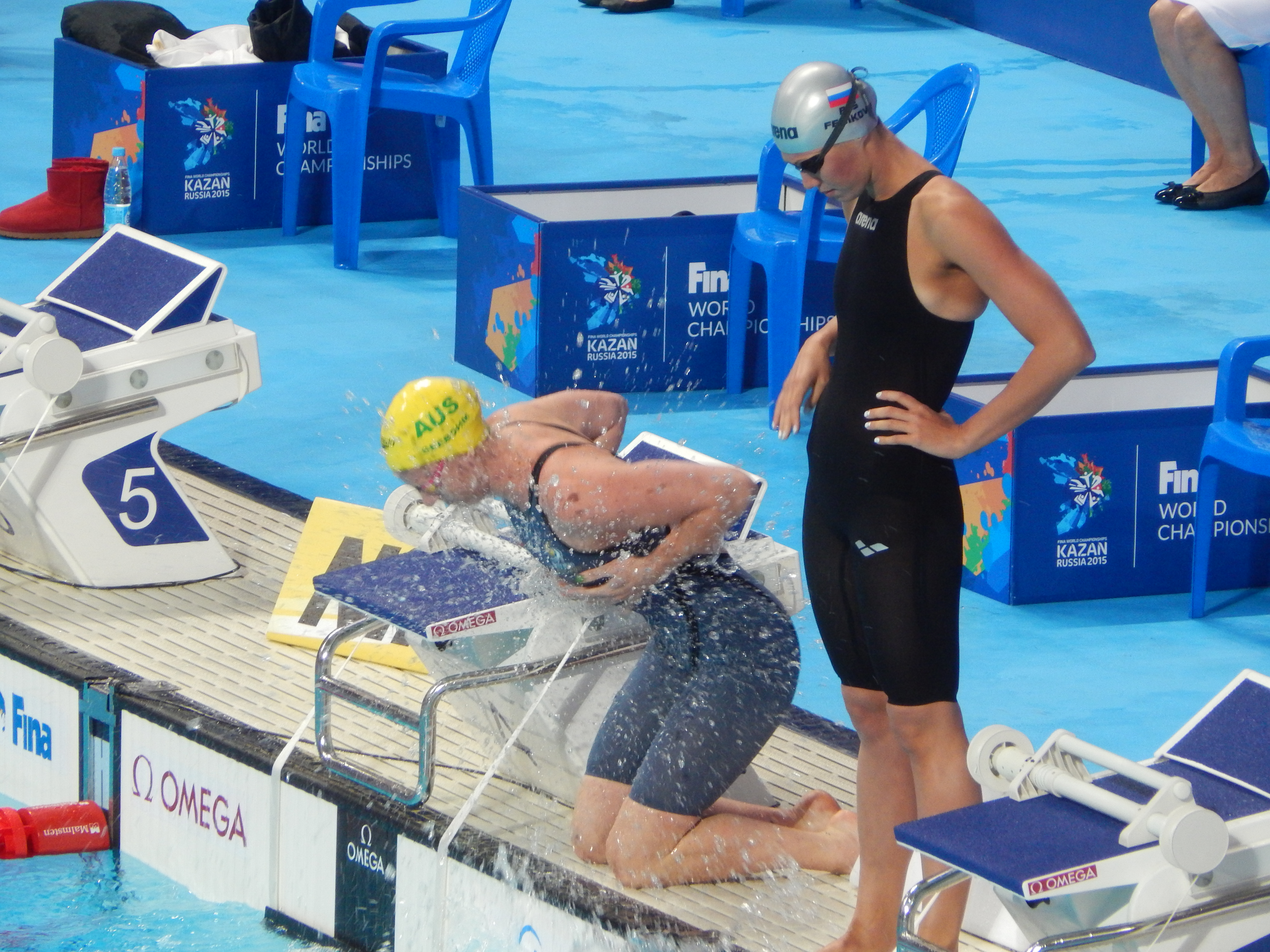 Emily Seebohm & Anastasia Fesikova before semifinal 100m backstroke